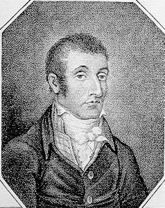 Portrait of John Bellingham